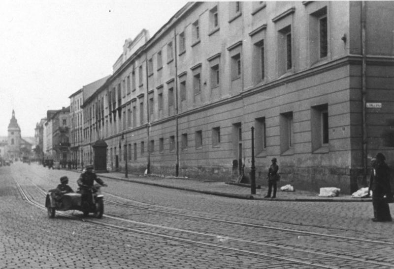 Lviv NKVD prison in the Horodotska str. (вулиця Городоцька), in the background one can see St. Ann's Church